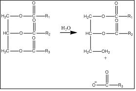 Example of hydrolysis of a triglyceride